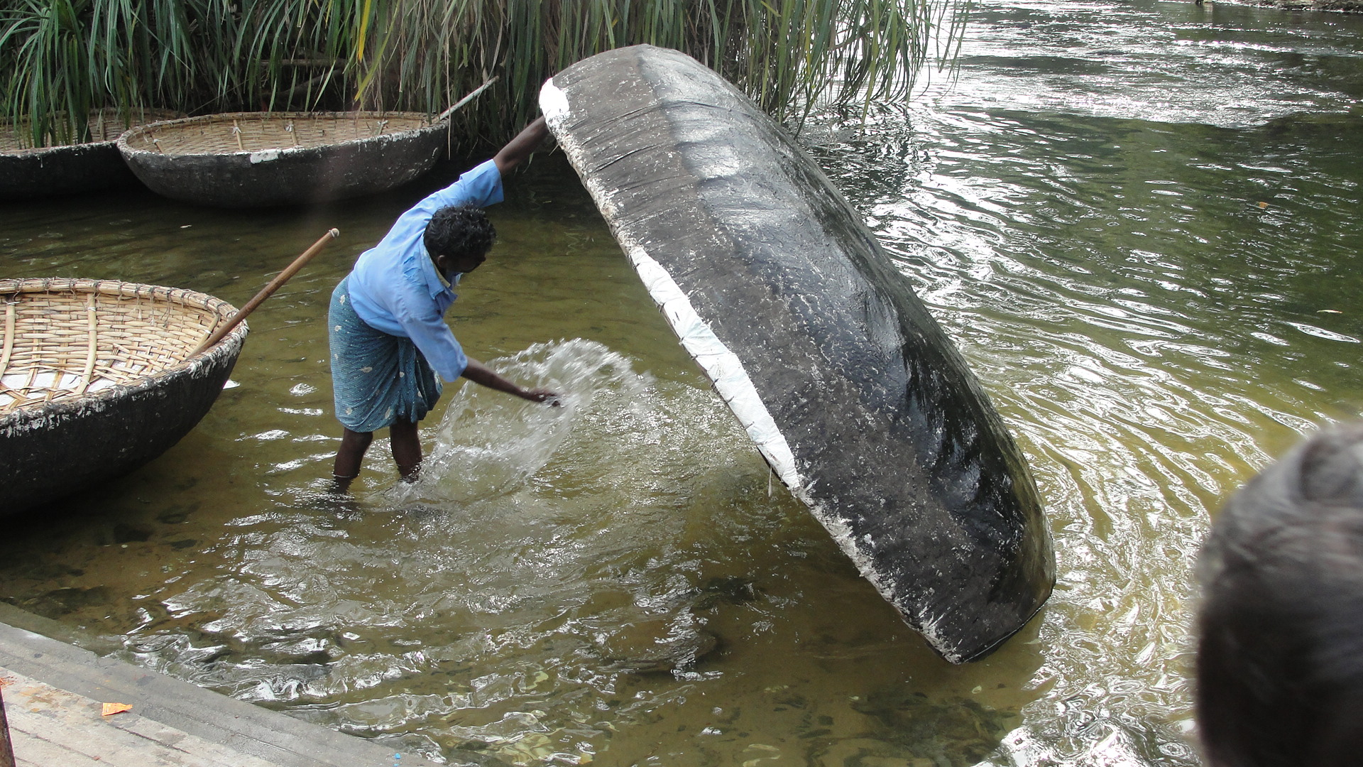 A coracle man wahing the coracle in Hokenakal, Dharmapuri district, Tamil Nadu, India.